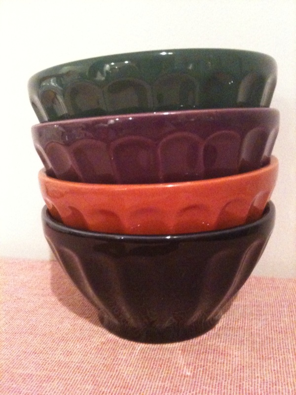 Cafe au lait bowls